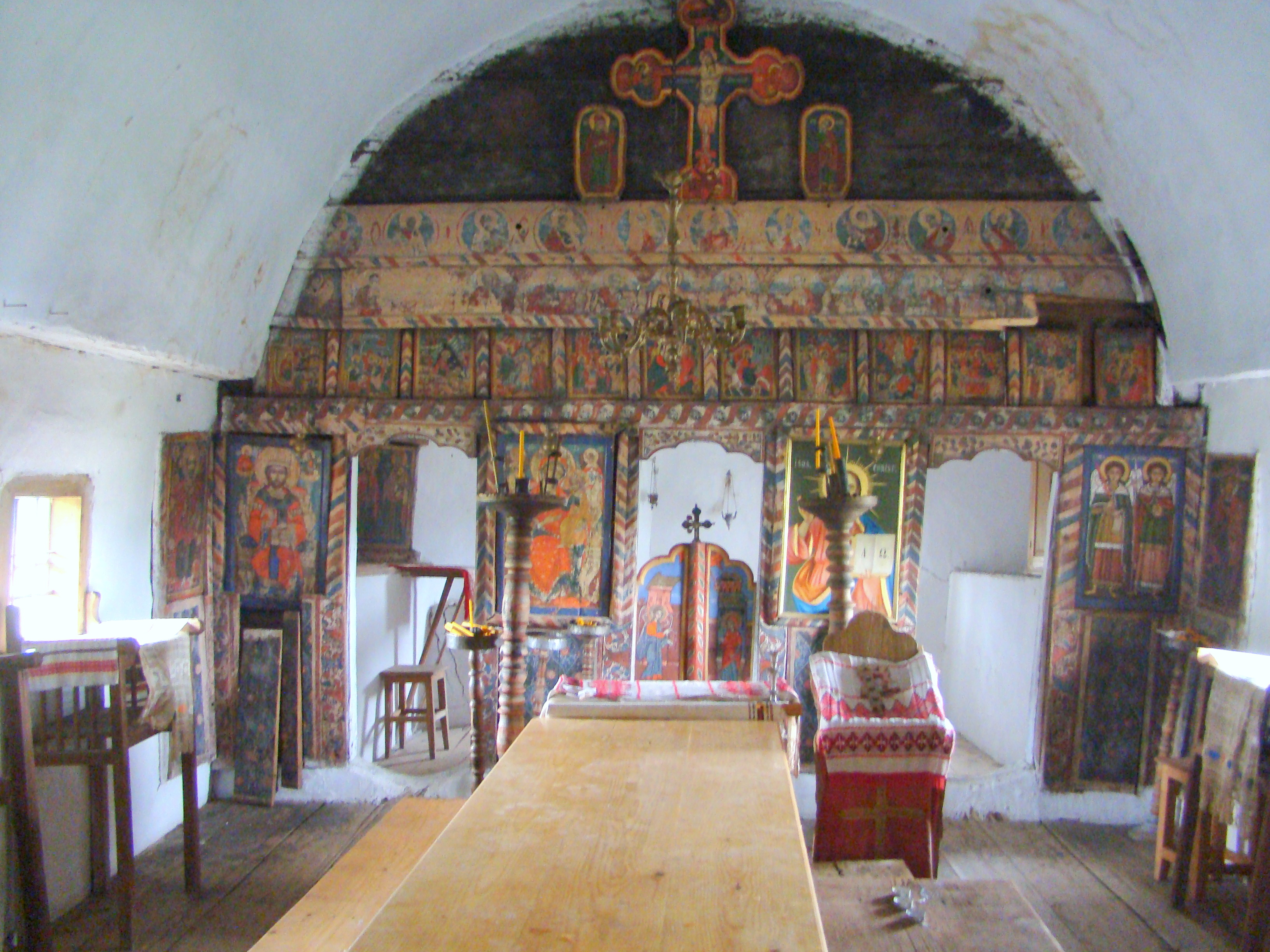 Wooden church of the Holy Angels in Novaci-Români, Gorj county, Romania